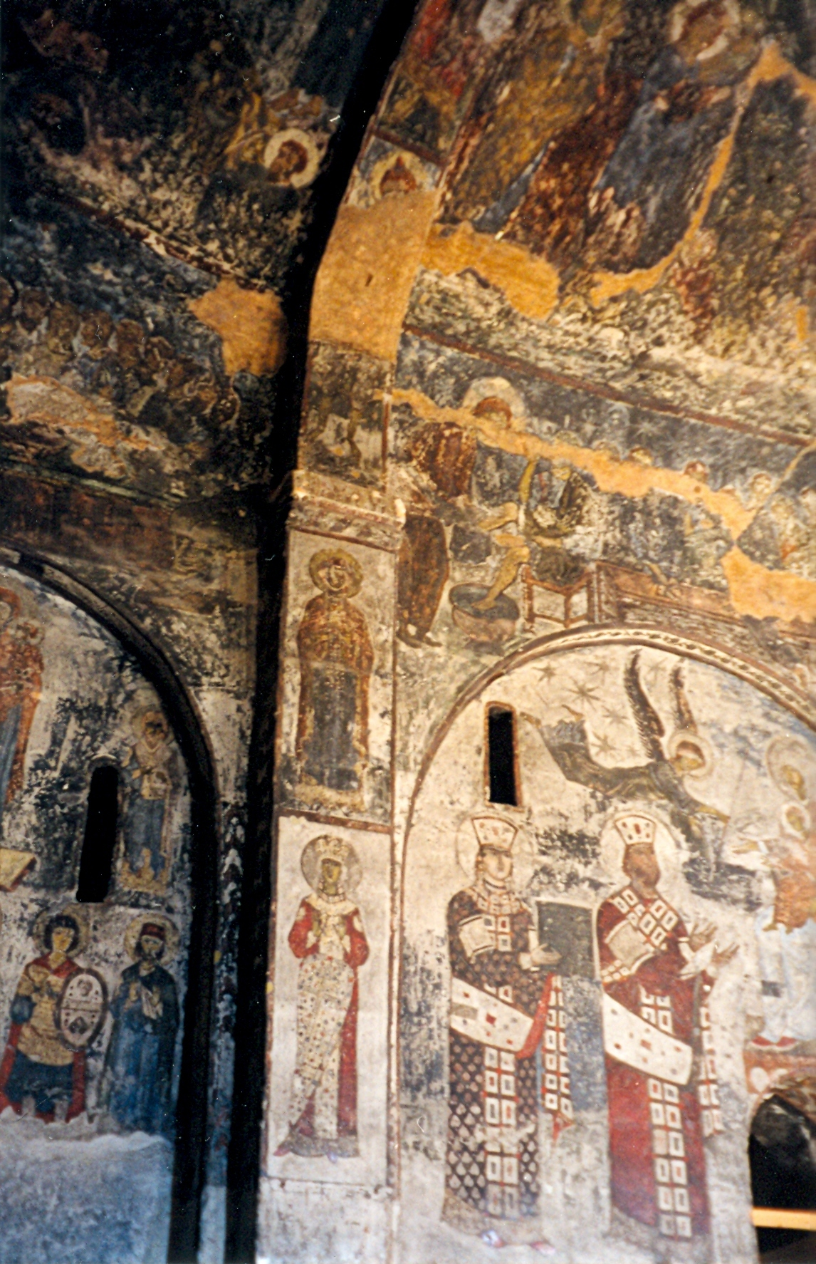 Cave murals, Vardzia, Georgia.